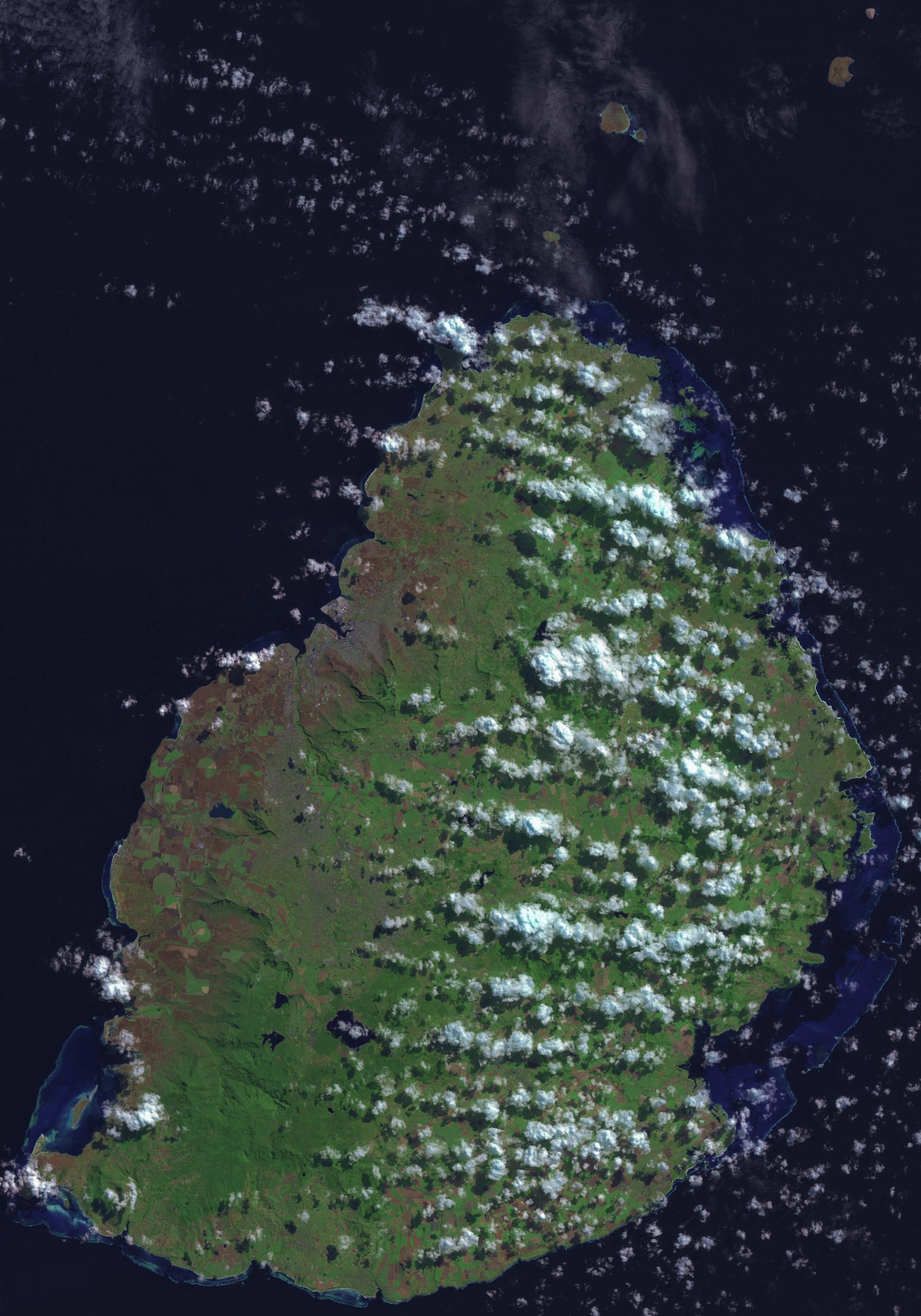 Satellite image of Mauritius island